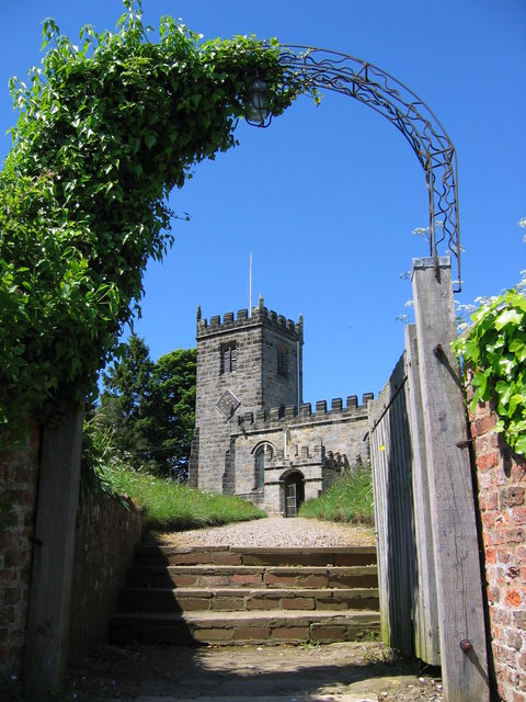 St. Cuthbert's Church, Crayke. The church is situated on high ground to the west side of the village.